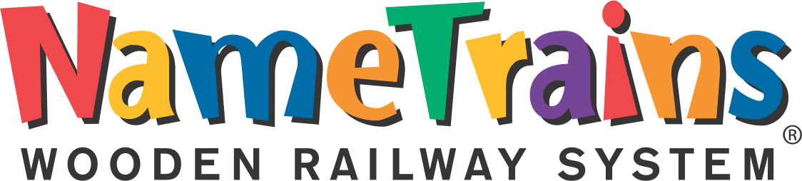 The logo for the NameTrains Wooden Railway System.